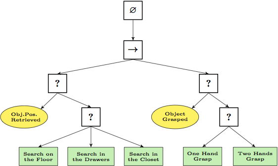 Behavior Tree modelling the search and grasp plan for a dual armed robot.